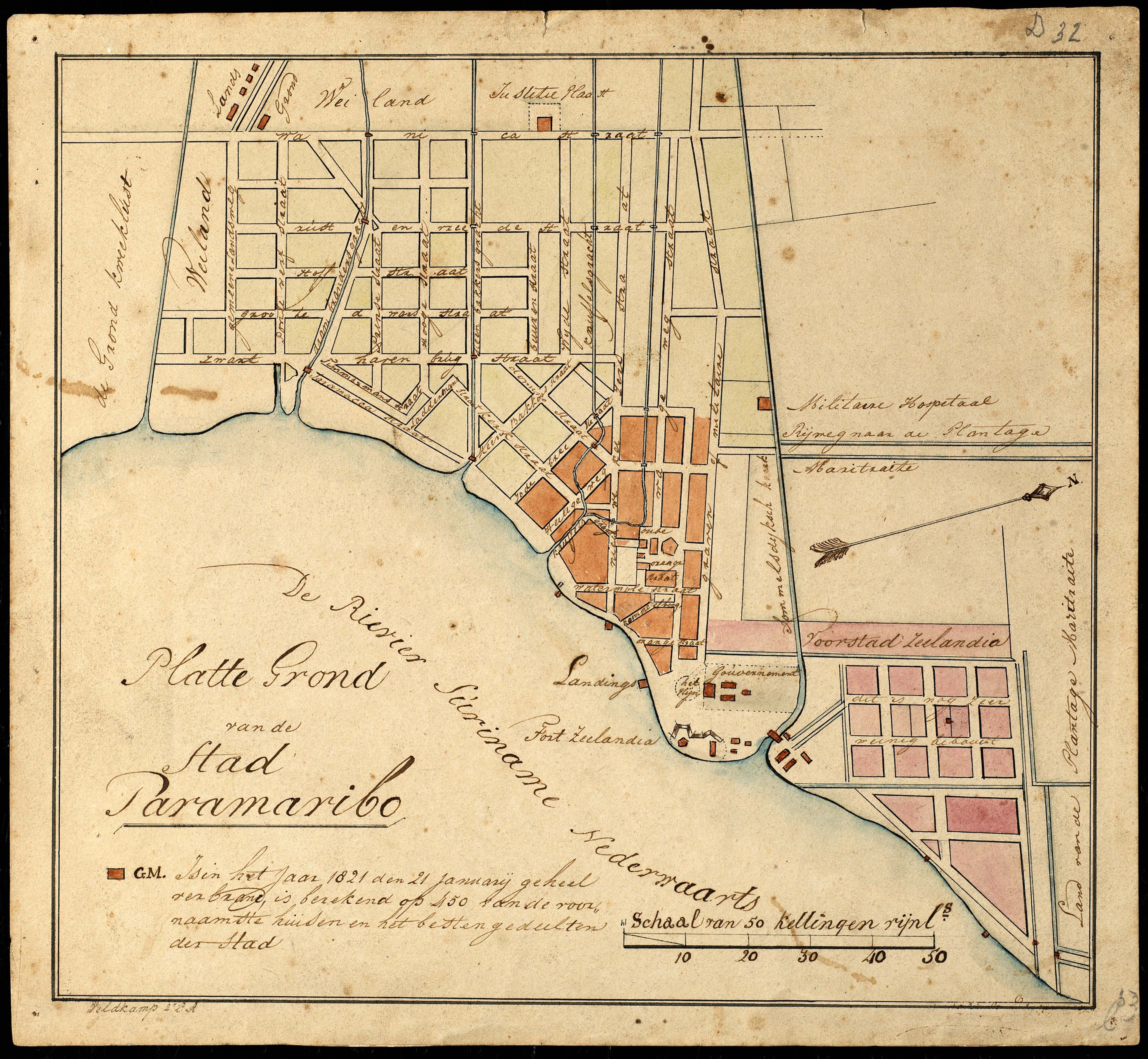 Map of Paramaribo, showing the extent of the city in 1821. In brown the damage of the city fire of 1821.